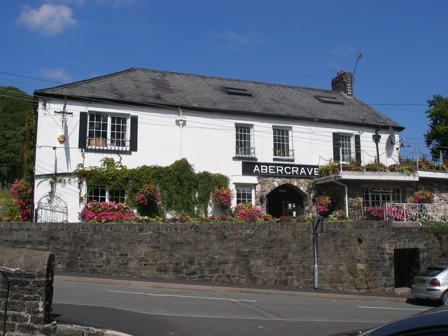 Abercraf ... ... the very popular Abercrave Inn.